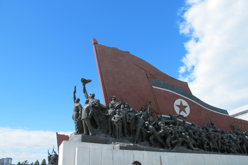 North Korea Monument